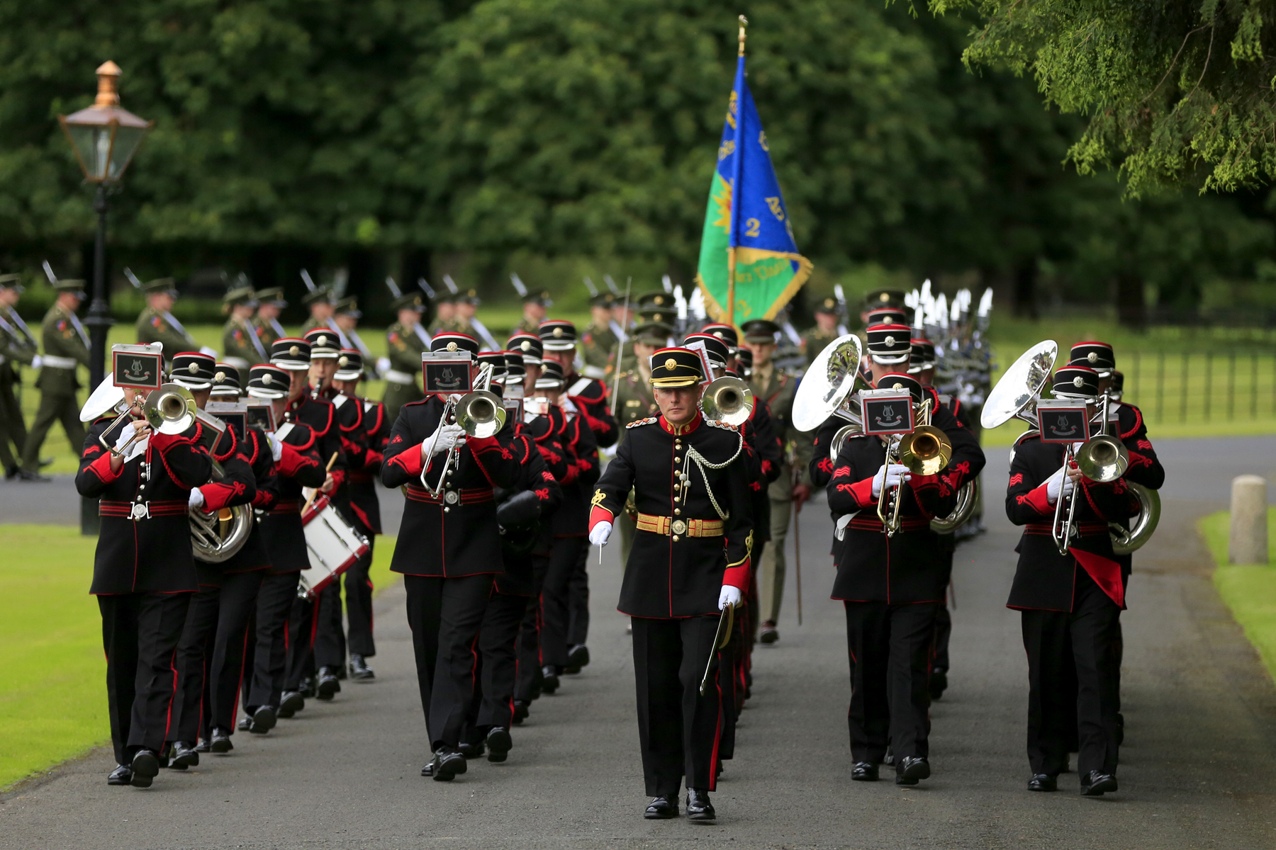 The Army No 1 Band under the baton of Capt Fergal Carroll at Áras an Úachtarán